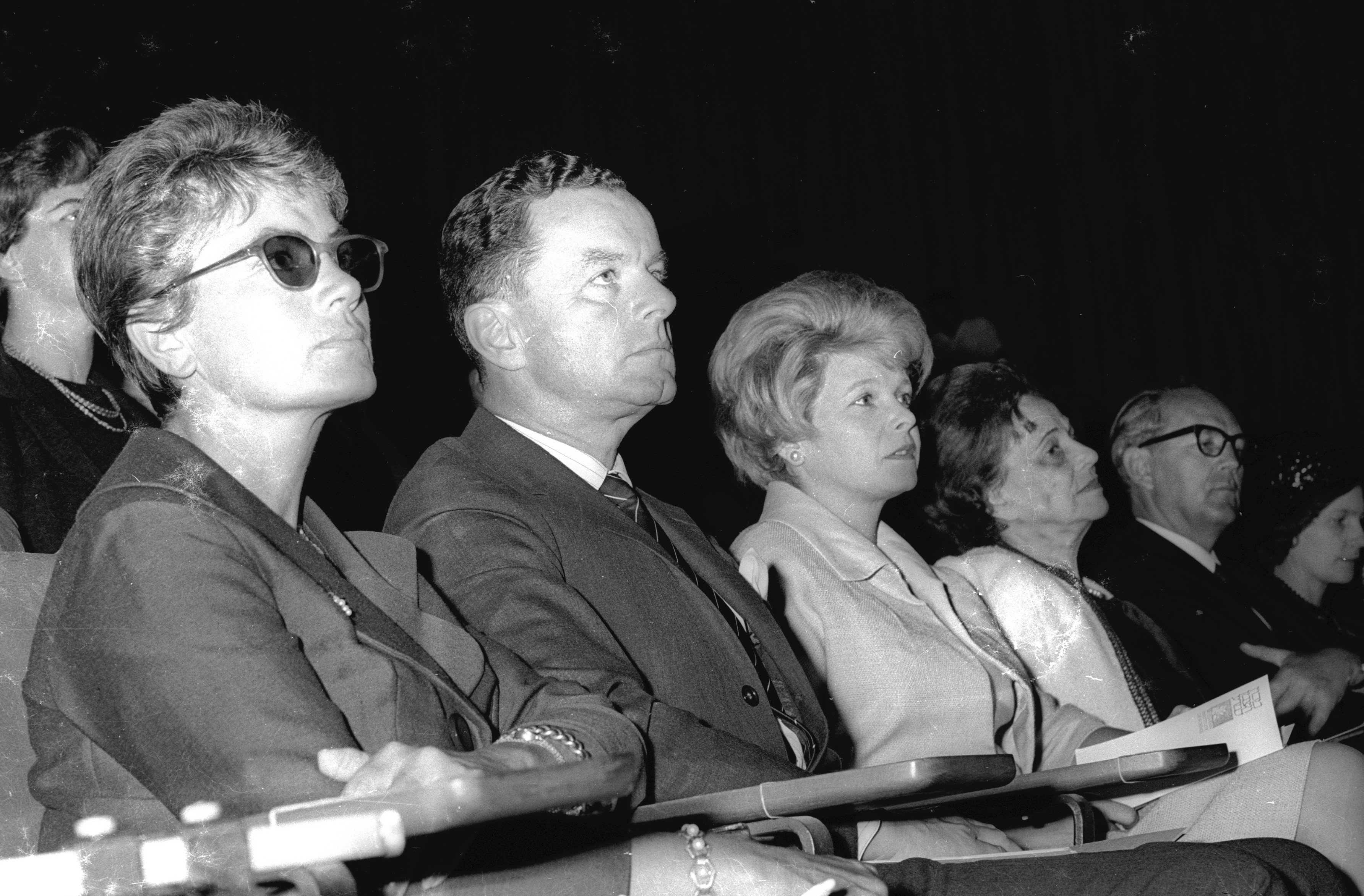 The first German Ambassador to Israel Rolf Paulus attending with his wife the ceremony of presenting Chancellor Adenhauer the Weizman Institute honorary doctorate award.